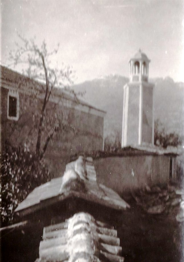 Church in the village Konjsko, Gevgelija, 1931 This media file is produced by Wikipedian in Residence in Category:Wikipedian in Residence at DARM in 2016.